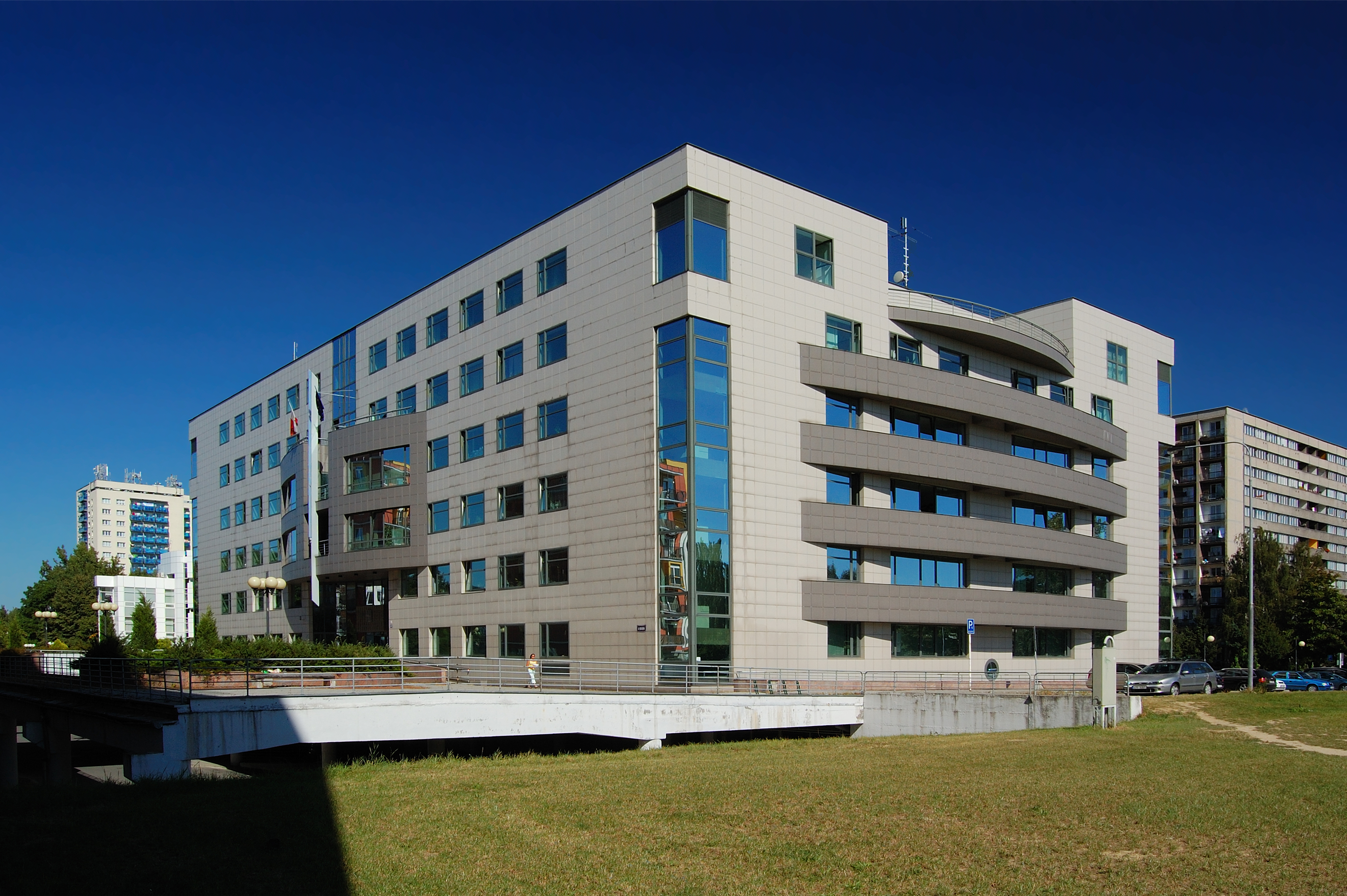 The county court (okresní soud) of the city of Ostrava, Czech Republic.